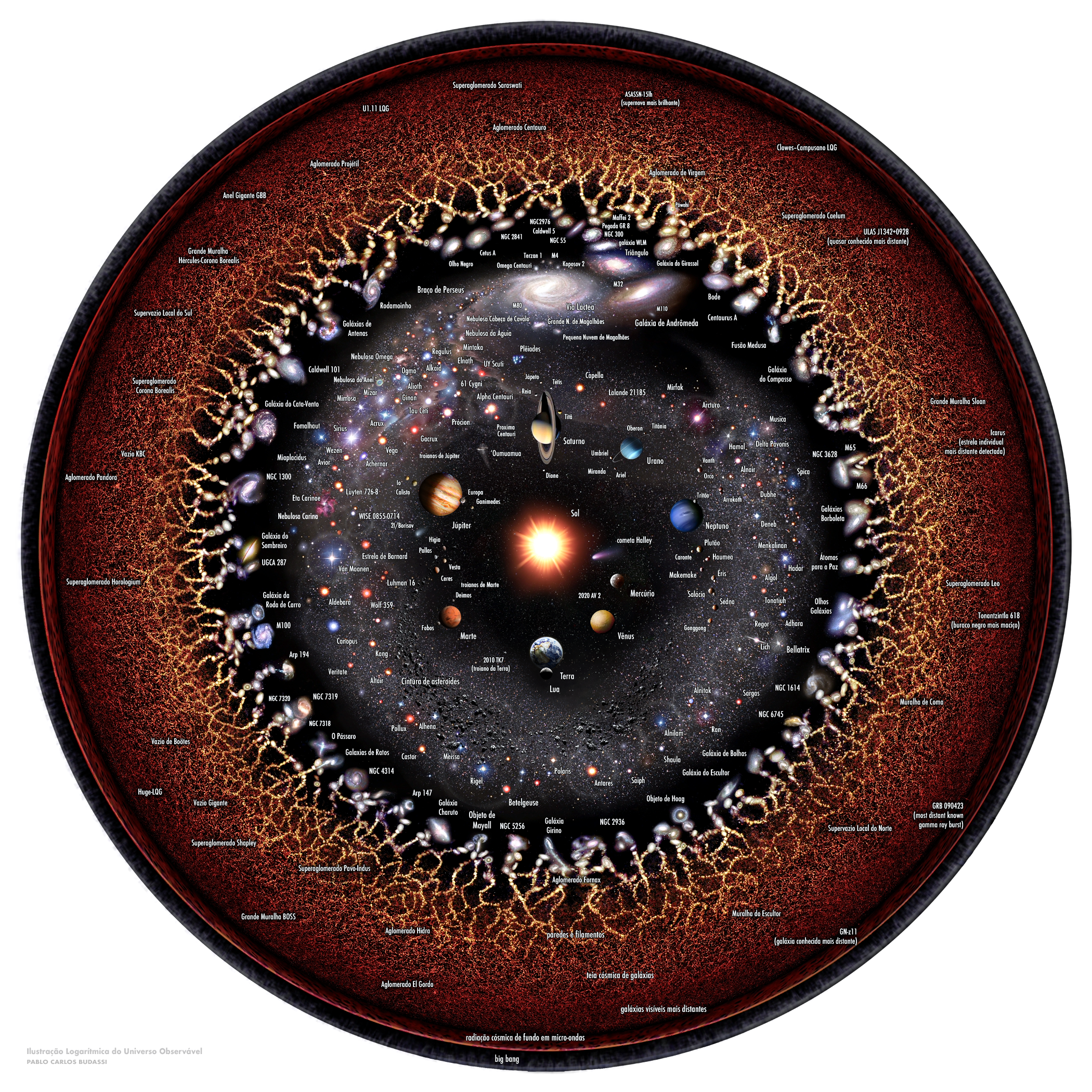 Concepção em escala logarítmica do universo observável com o Sistema Solar no centro, planetas interno e externo, objetos do cinturão de Kuiper, Alpha Centauri, Braço de Perseu, galáxia Via Láctea, galáxia Andrômeda, galáxias próximas, Web cósmica, radiação de microondas cósmica e invisível do Big Bang plasma na borda. A distância da Terra aumenta exponencialmente do centro até a borda. Os corpos celestes são mostrados ampliados para apreciar suas formas.